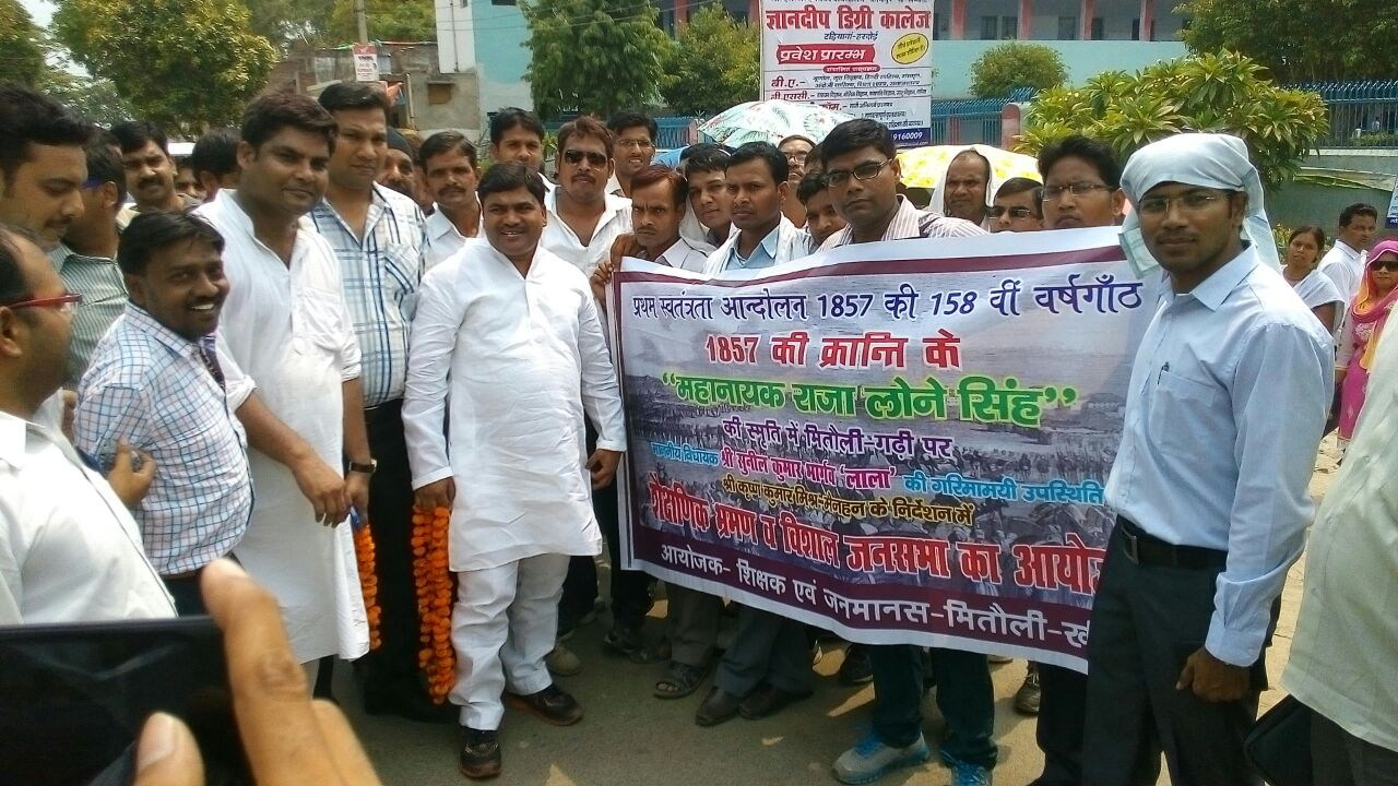 People of Mitauli congregates at Raja Lone Singh Road For celebration of first freedom struggle in India.